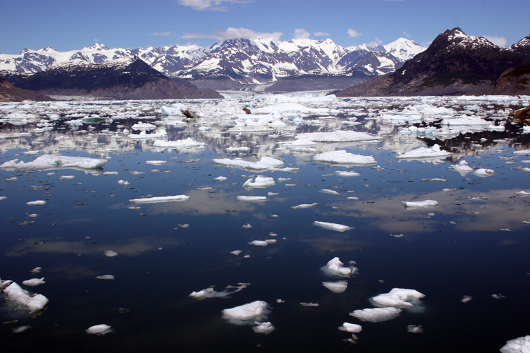 Floating ice in the bay at the base of Columbia Glacier, Prince William Sound, South Central Alaska "Taken back in 2005, when my husband and I kayaked the Columbia Glacier in Alaska (we lived in Fairbanks from 2004-2008)."